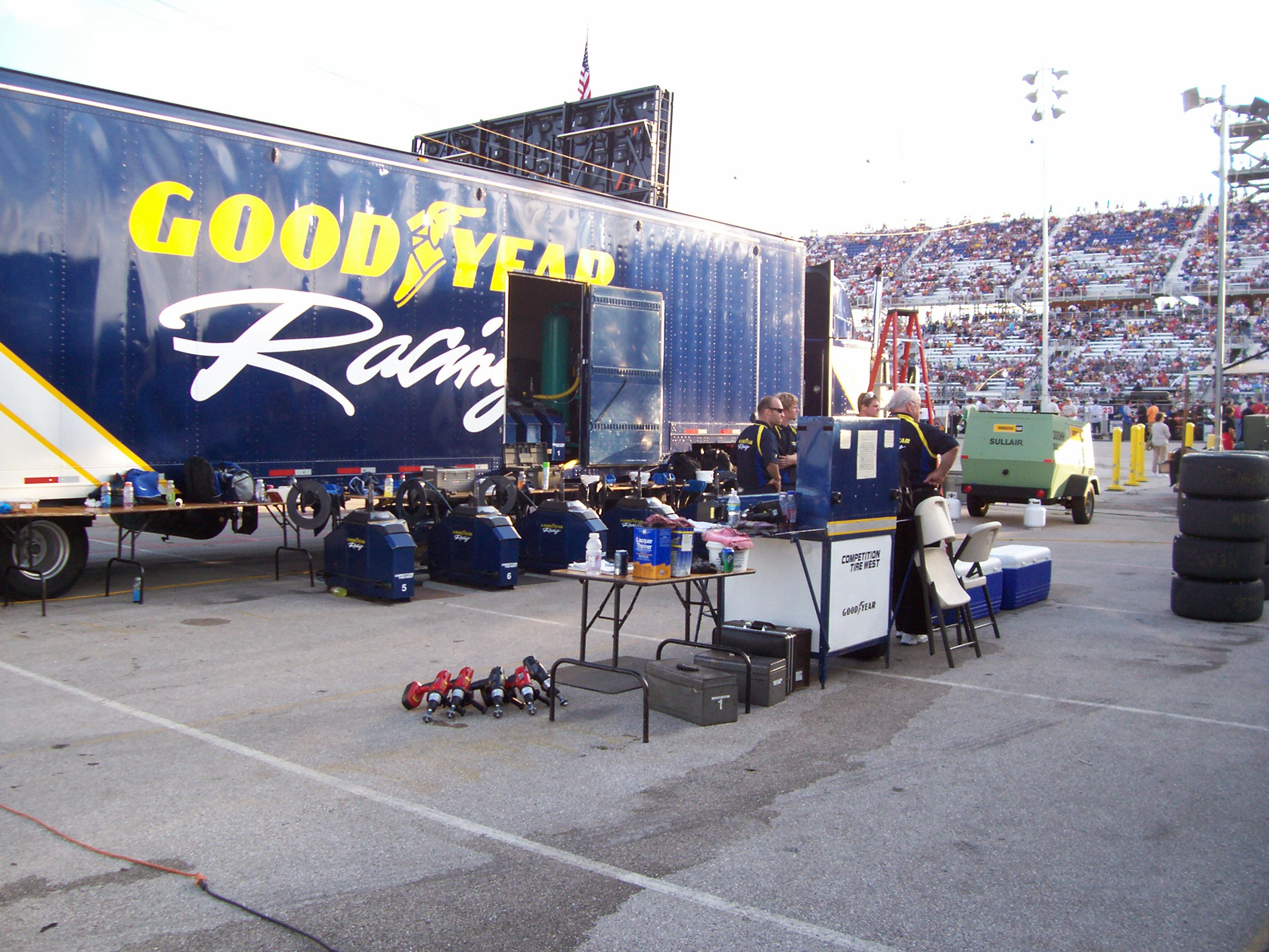 The Goodyear Tire and Rubber Company trailer at the NASCAR Nationwide Series event at the Milwaukee Mile.